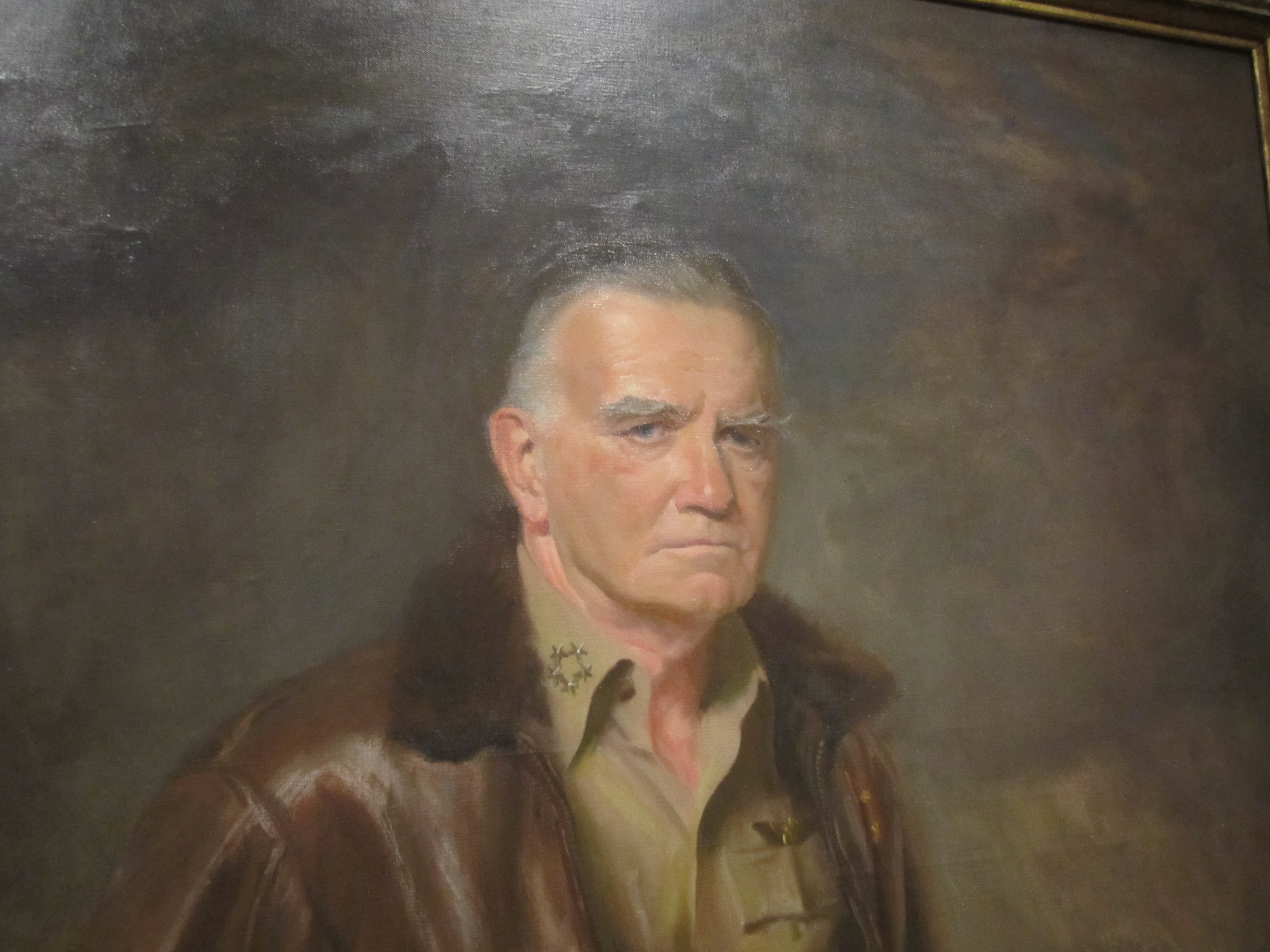 I took photo of Admiral Halsey with Canon camera at National Portrait Gallery in Washington, D.C. U.S. government owned. Public domain.